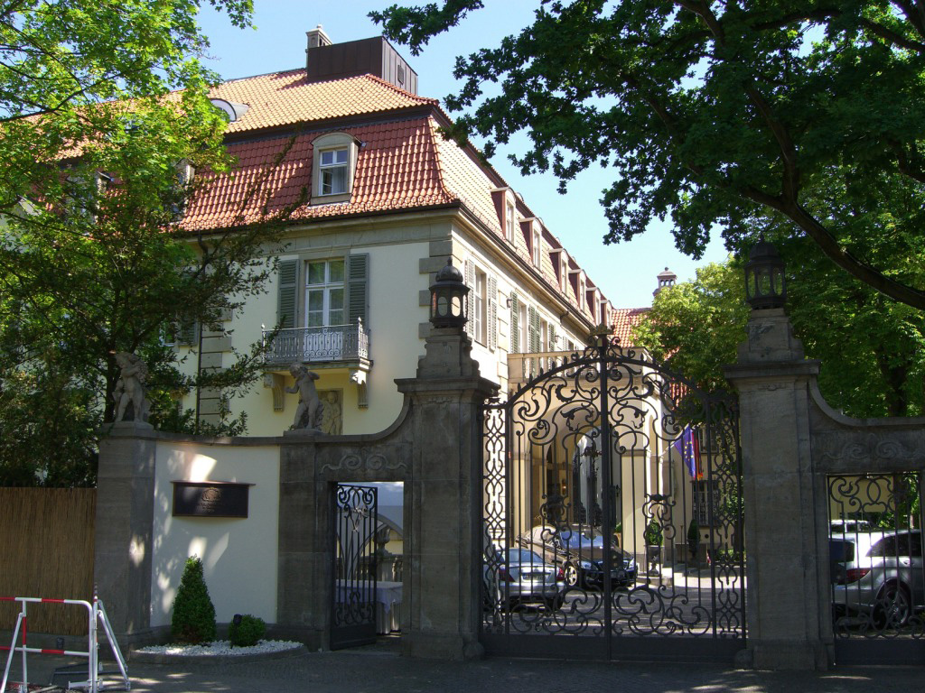 'Schlosshotel im Grunewald', accommodation of the German World-Cup football team 2006